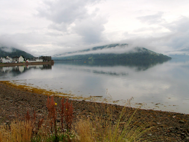 West bank of Loch Fyne near Inveraray Southern end of Inveraray is visible at left.